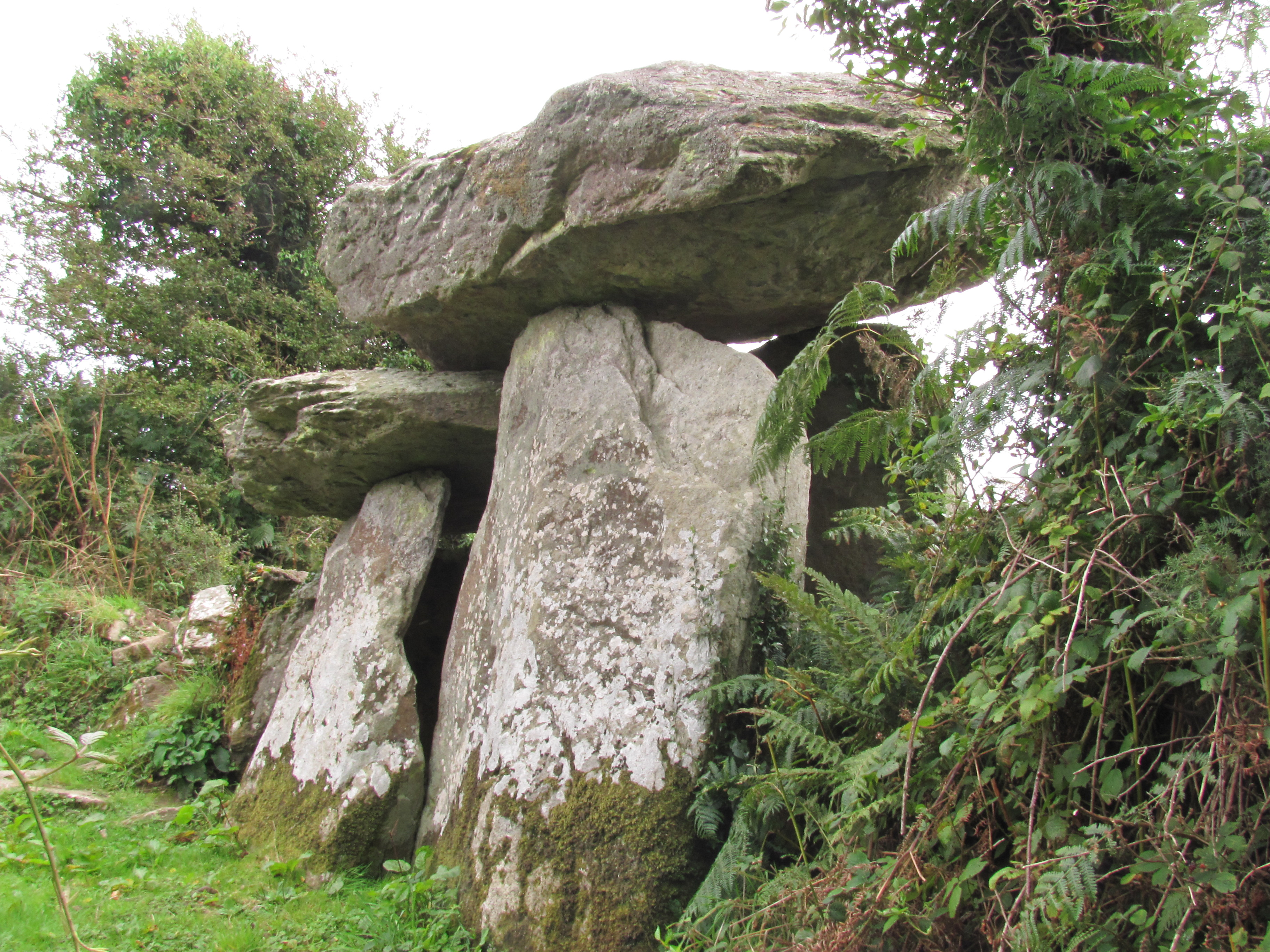 Knockeens Dolmen